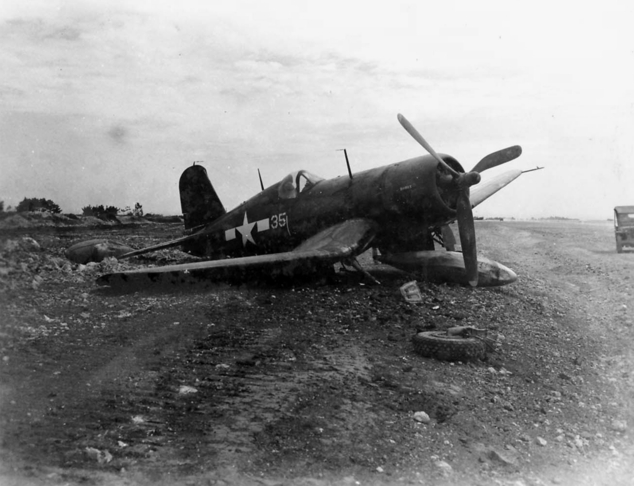 A battle-damaged U.S. Marine Corps Vought F4U-1D Corsair from Marine Fighting Squadron 314 (VMF-314) Bob's Cats on Ie Shima, Japan, in 1945.